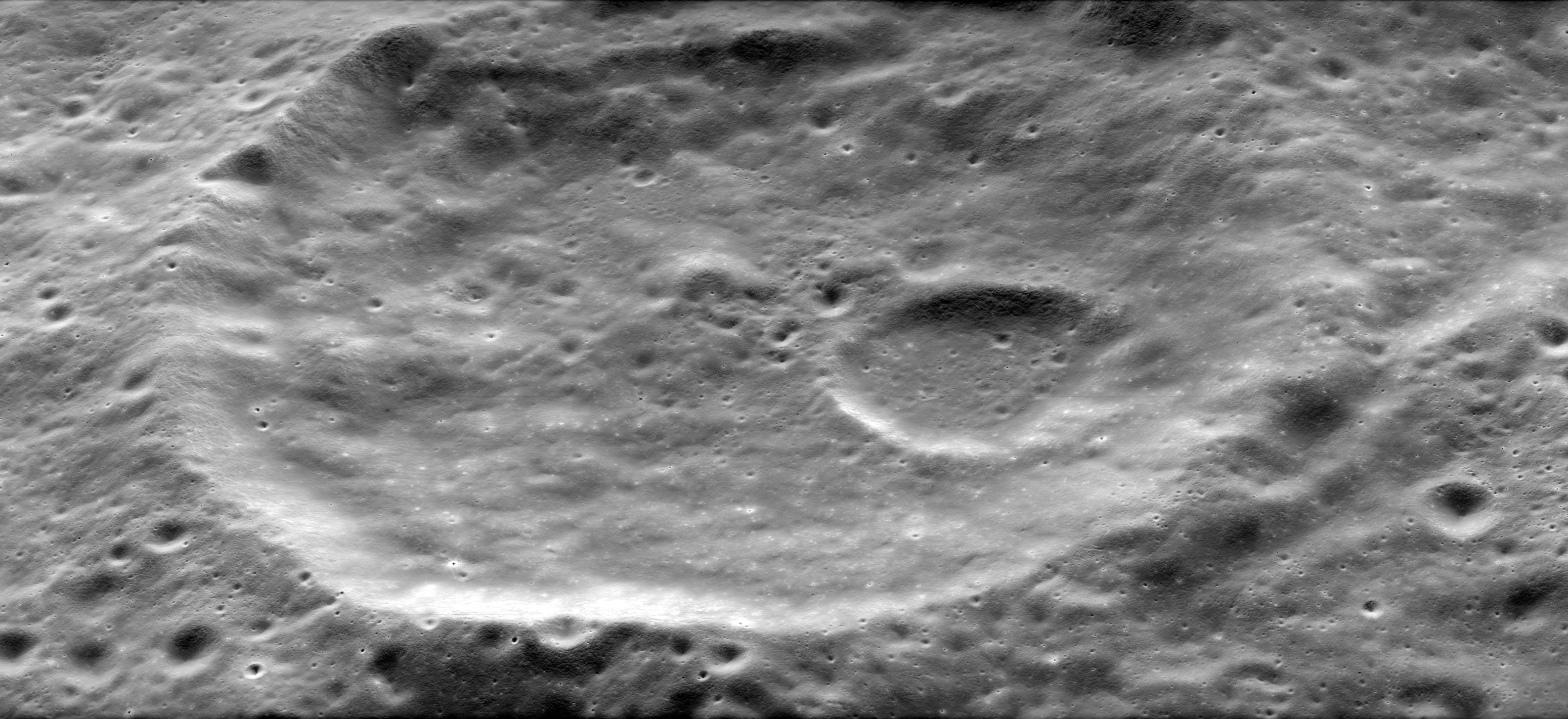 Oblique view of Khvol'son crater, facing west, on the far side of the moon. Taken by Apollo 17 panoramic camera.